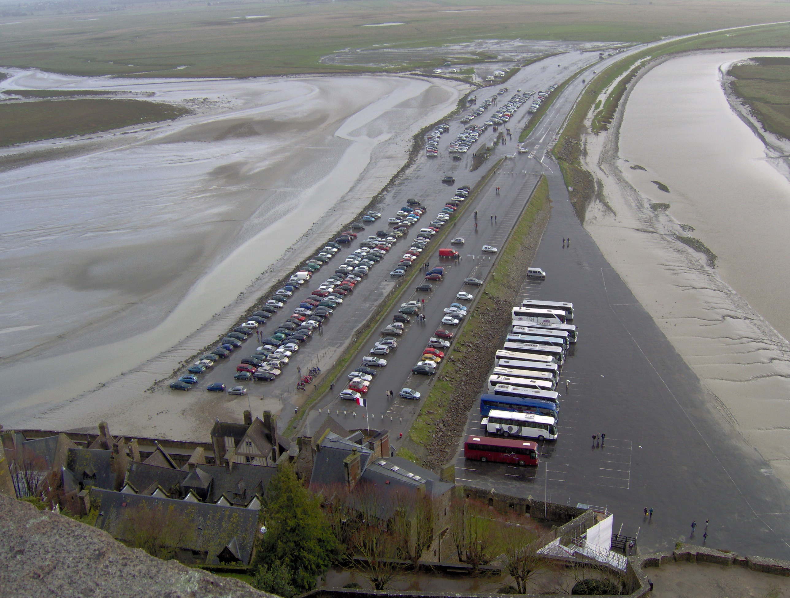 Mont Saint-Michel's parking (upper view)